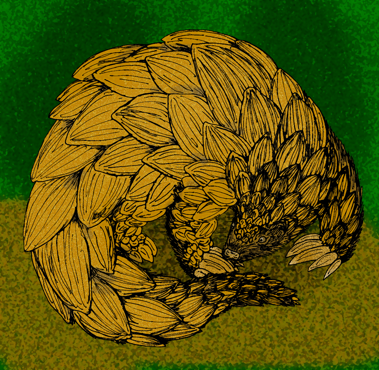 My reconstruction of the French Miocene pangolin, Necromanis franconica